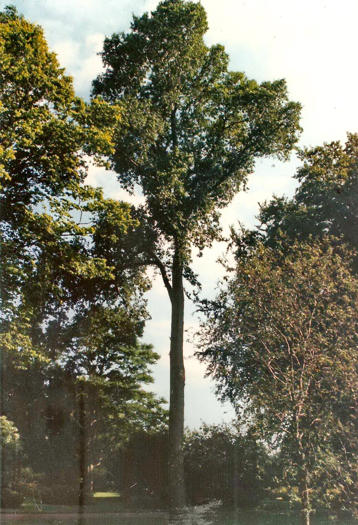 Edinburgh RBG, Elm Collection 1989, Specimen Tree 6; Habit